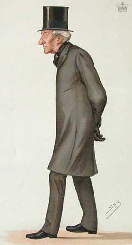 Caricature of Algernon Percy, 6th Duke of Northumberland. Caption read "the House of Percy".